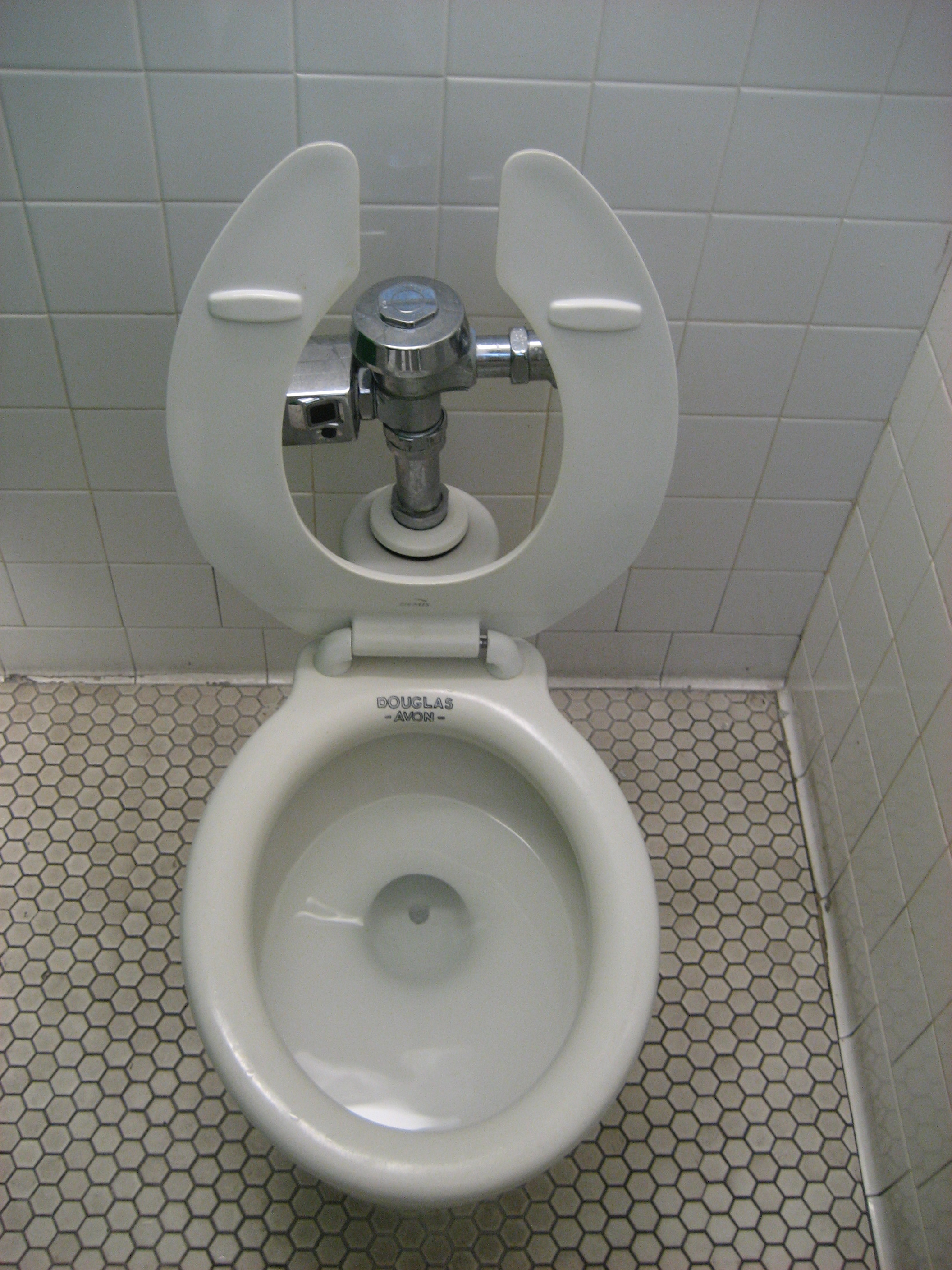 McGuire's Irish Pub, Pensacola, Florida. Toilet. A sign says that the plumbing fixtures were salvaged from a hotel from c. 1900.